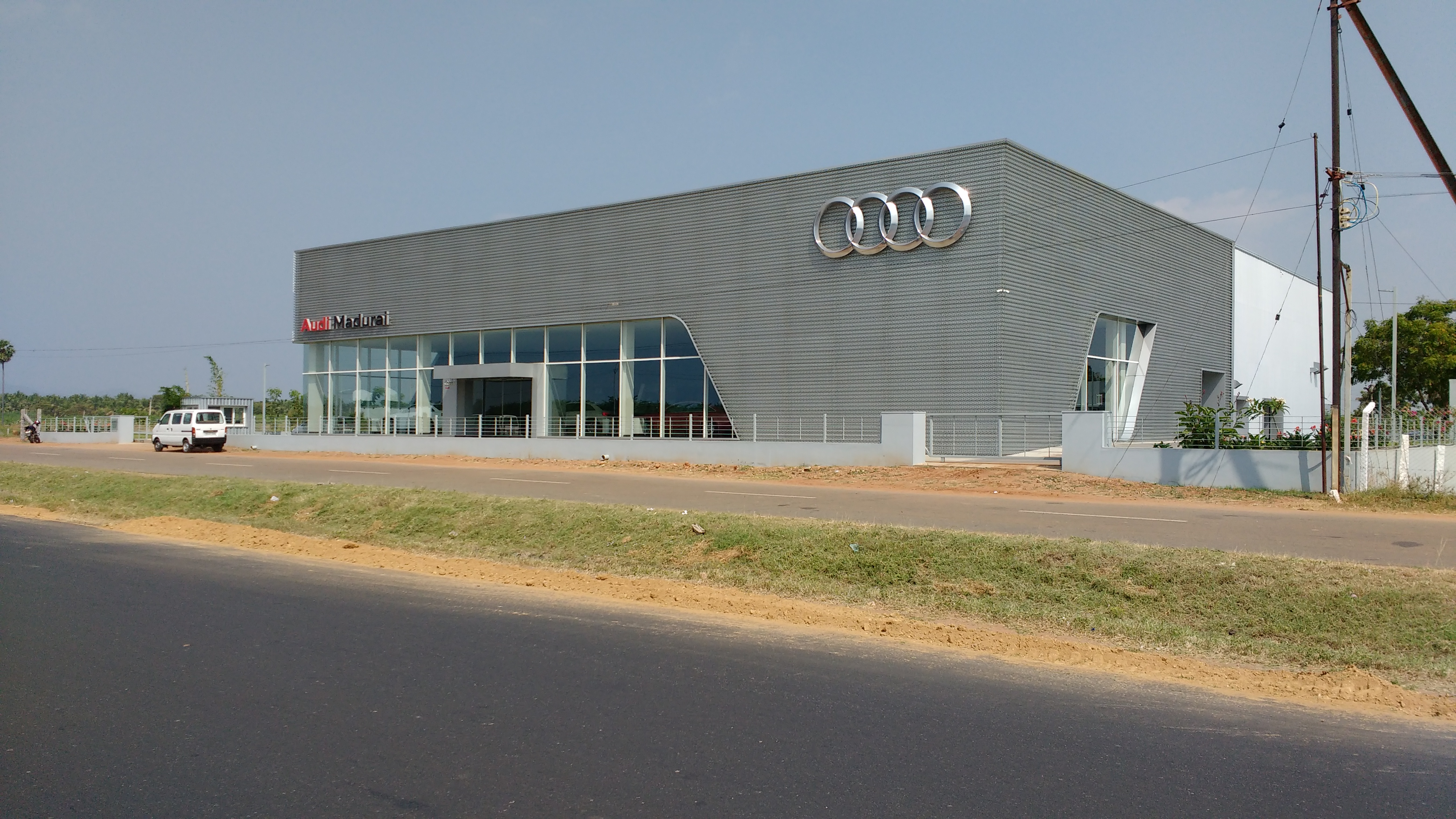 Audi Showroom in Madurai